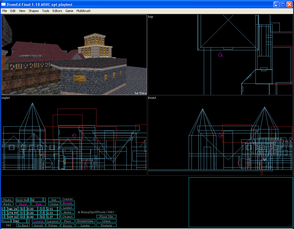 screenshot